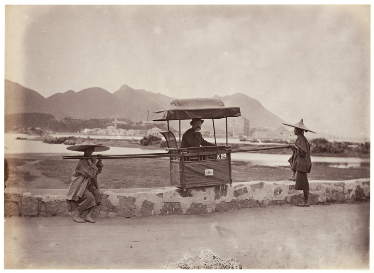 A sedan chair in Hong Kong